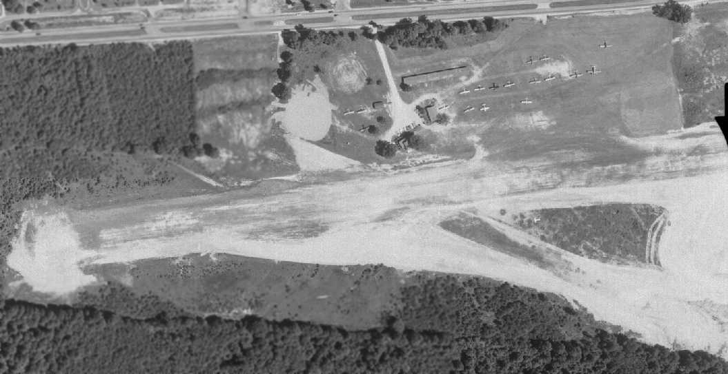 Aerial imagery of Falls Church Airpark.